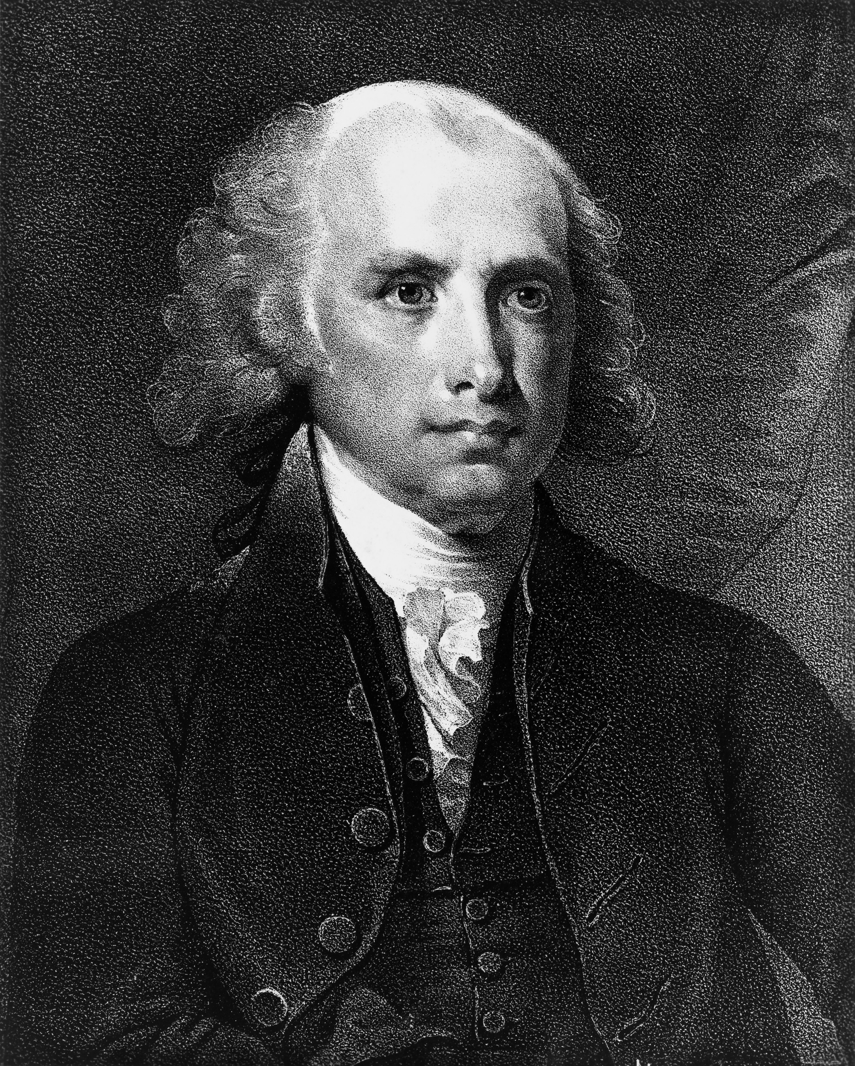 lithograph half-portrait of the detail of James Madison, President of the United States from around 1828.